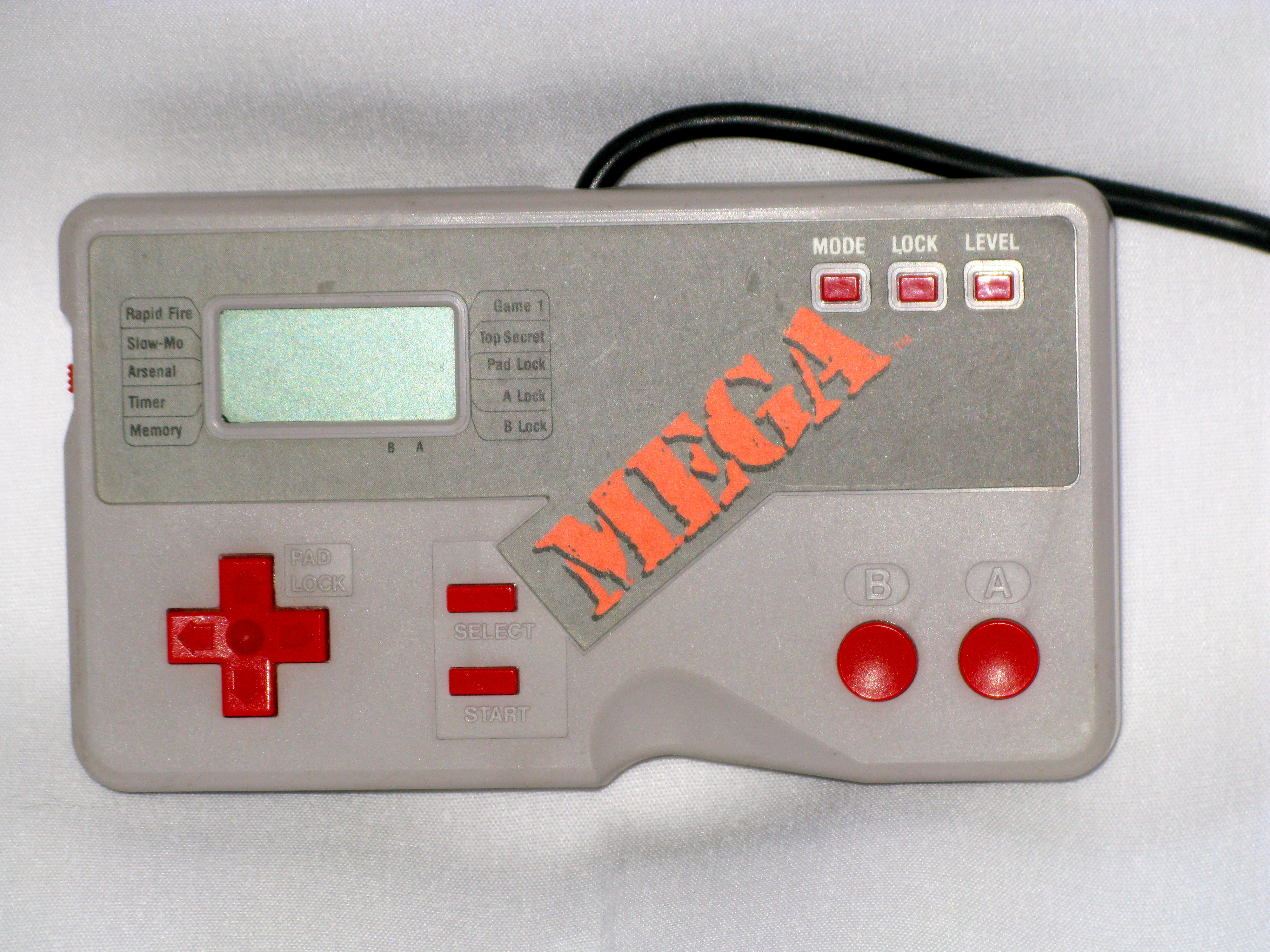 Bandai MEGA Controller